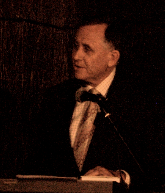 John Mickel, Speaker of the Parliament of Queensland, speaks at launch of Secret History of Democracy, Avid Reader, Boundary St, West End, Brisbane Queensland Australia 110630